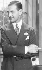 Carlos Lagrotta- actor argentino